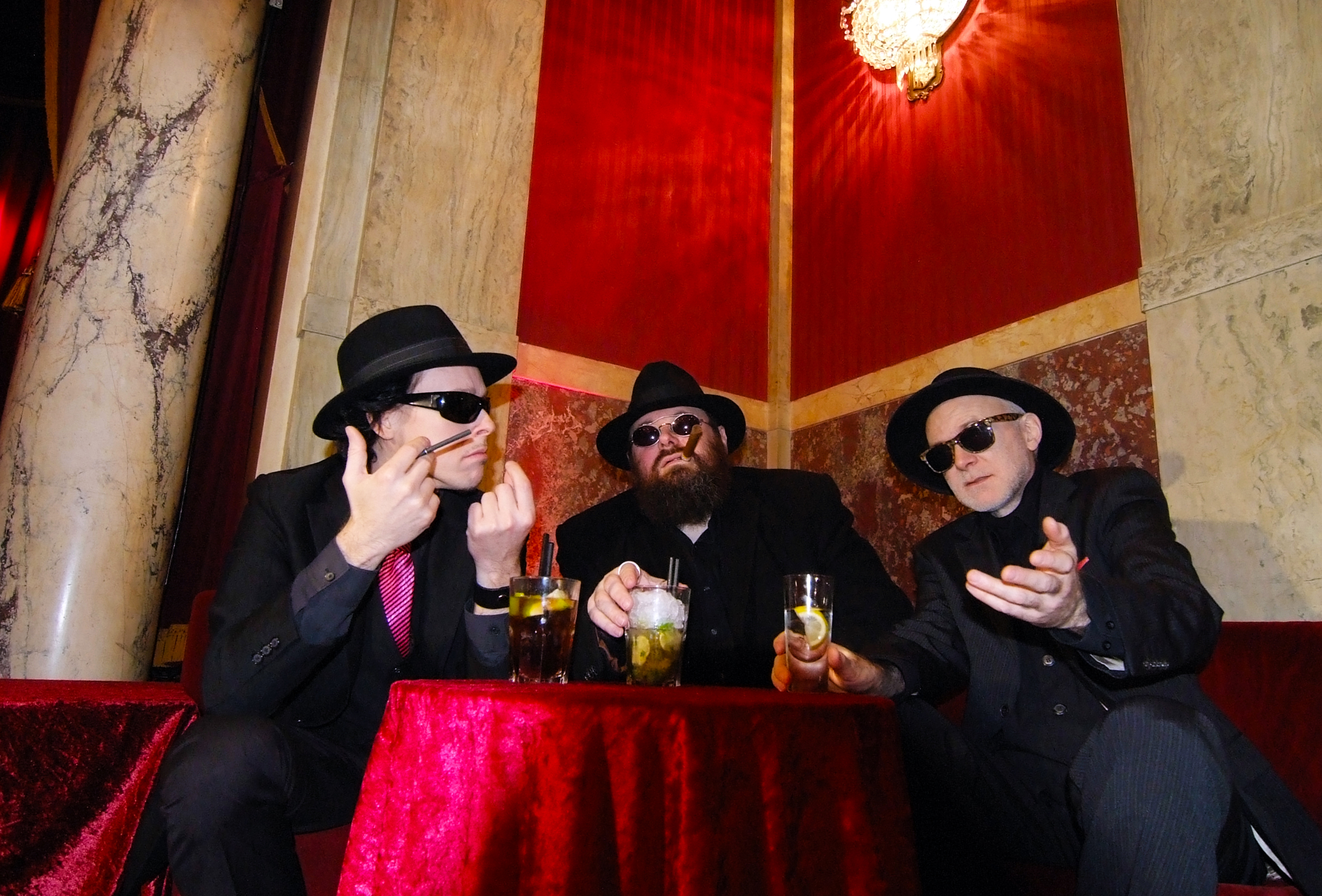 monochrom's Creative Class Escort Service (Kreativlaufhaus), (press image, 2015)